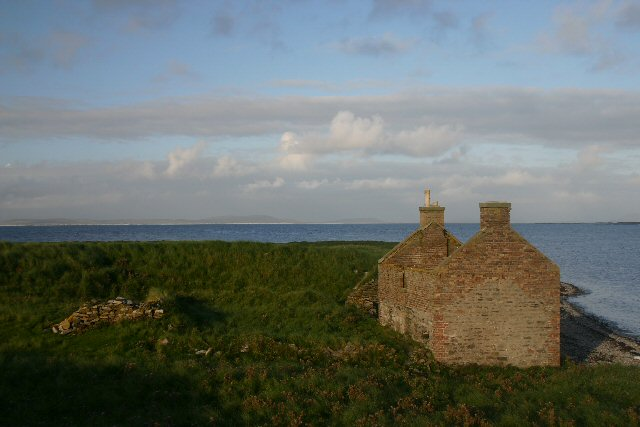 Thearnais, Monach Islands. The last remaining house, albeit roofless, on Ceann Iar in the Monach Islands.